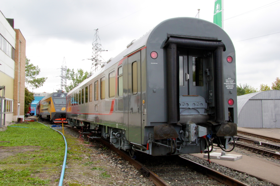 Expo 1520 exibition (Выставка Экспо 1520) Moscow, Scherbinka (Москва, Щербинка)